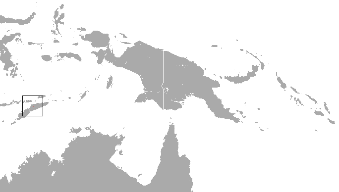 Rhinolophus montanus range